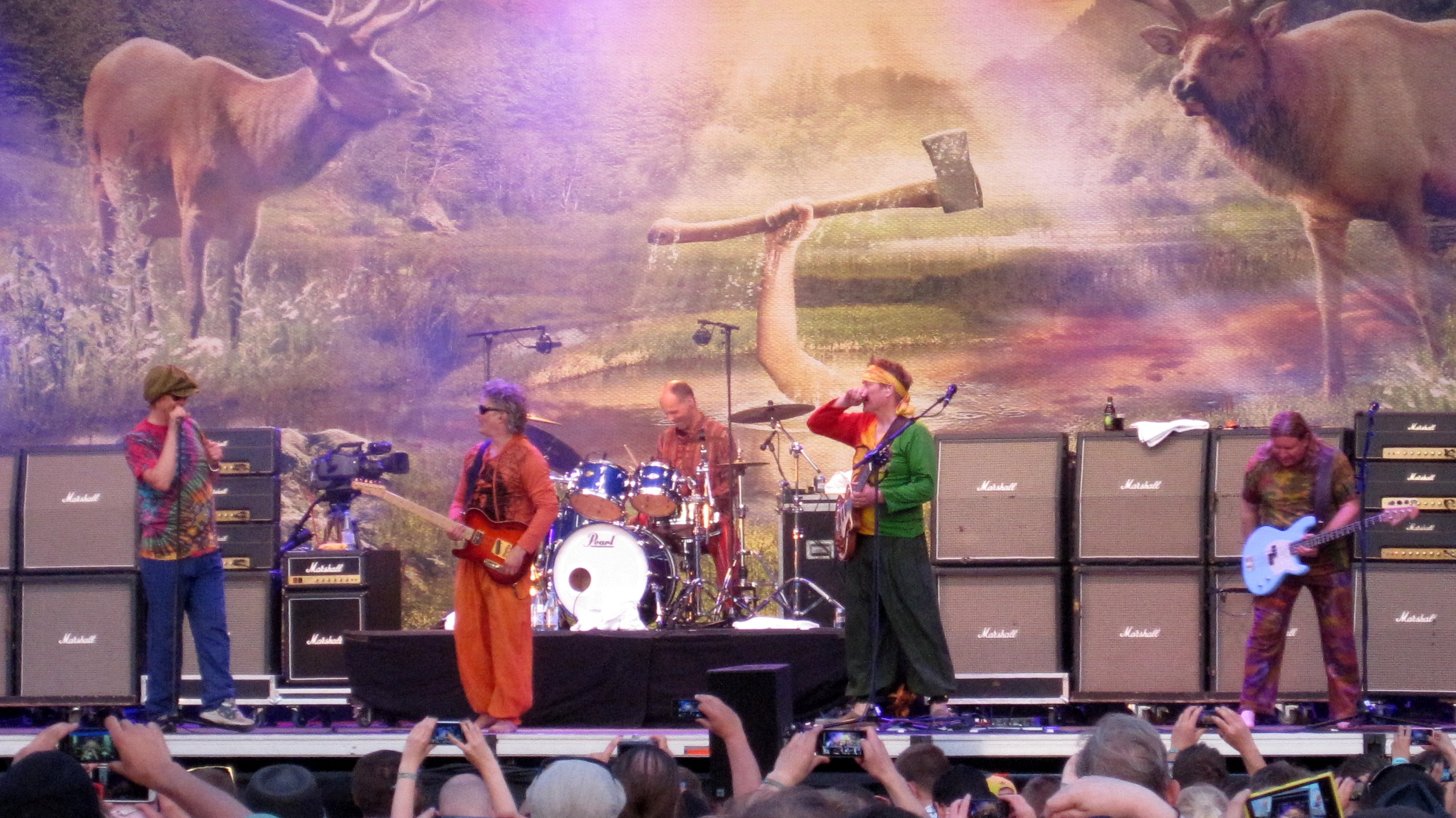 Eppu Normaali at the Qstock 2013 festival in Oulu.